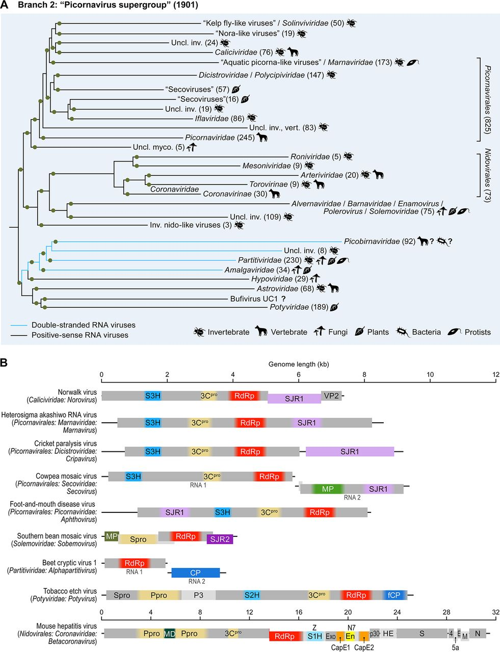 Branch 2 of the RNA virus RNA-dependent RNA polymerases (RdRps): “picornavirus supergroup” of the +RNA viruses expanded to include nidoviruses and two groups of dsRNA viruses, partitiviruses, and picobirnaviruses. (A) Phylogenetic tree of the virus RdRps showing ICTV accepted virus taxa and other major groups of viruses. Approximate numbers of distinct virus RdRps present in each branch are shown in parentheses. Symbols to the right of the parentheses summarize the presumed virus host spectrum of a lineage. Green dots represent well-supported (≥0.7) branches. Inv., viruses of invertebrates (many found in holobionts, making host assignment uncertain); myco., mycoviruses; Uncl., unclassified; vert., vertebrate. (B) Genome maps of a representative set of branch 2 viruses (drawn to scale) showing color-coded major conserved domains. Where a conserved domain comprises only a part of the larger protein, the rest of this protein is shown in light gray. The locations of such domains are approximated (indicated by fuzzy boundaries). 3Cpro, 3C chymotrypsin-like protease; CP, capsid protein; E, envelope protein; En, nidoviral uridylate-specific endoribonuclease (NendoU); Exo, 3′-to-5′ exoribonuclease domain; fCP, capsid protein forming filamentous virions; M, membrane protein; MD, macrodomain; MP, movement protein; MT, ribose-2-O-methyltransferase domain; N, nucleocapsid protein; N7, guanine-N7-methyltransferase; Ppro, papain-like protease; SJR1 and SJR2, single jelly-roll capsid proteins of type 1 and type 2; spike, spike protein; S1H, superfamily 1 helicase; S2H, superfamily 2 helicase; S3H, superfamily 3 helicase; VP2, virion protein 2; Z, Zn-finger domain; Spro, serine protease; P3, protein 3. Distinct hues of same color (e.g., green for MPs) are used to indicate cases where proteins that share analogous function are not homologous.